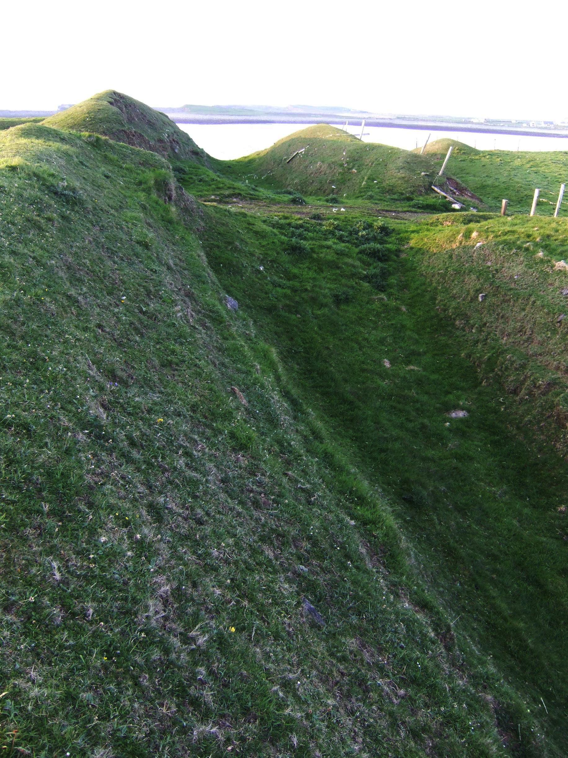 Left forground: South fosse of the Fort Top Background: North fosse